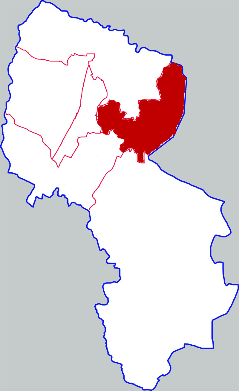 Location of Xingqing district in Yinchuan city, China